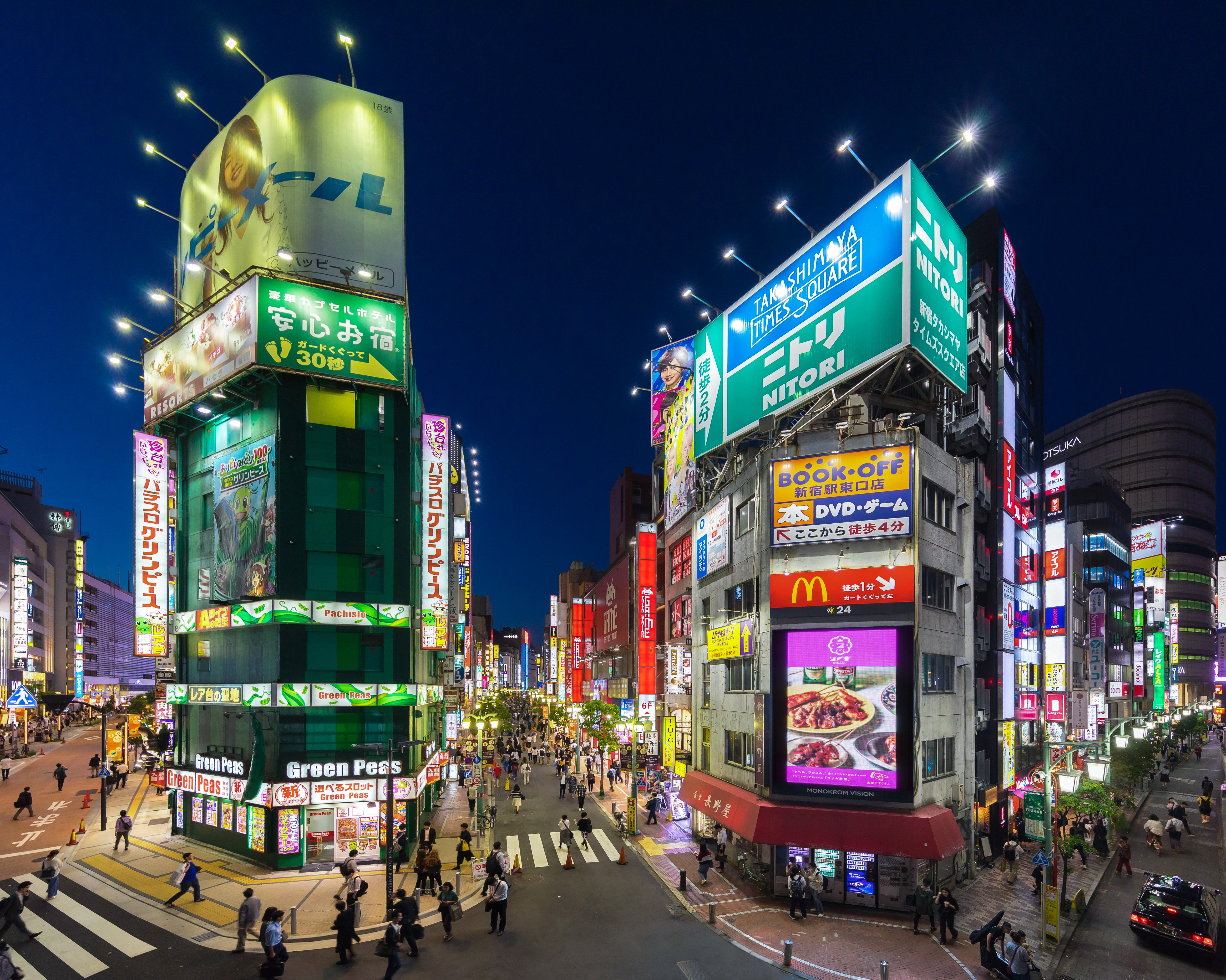 Facades of Green Peas restaurant and Nitori building, colorful neon street signs at blue hour, view from Koshu-kaido Avenue, Shinjuku station JR East. Entertainment district in Shinjuku, Tokyo, Japan.